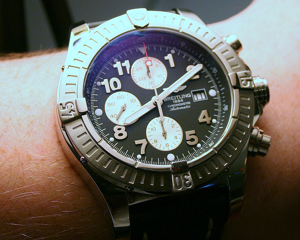 My picture I took of my watch